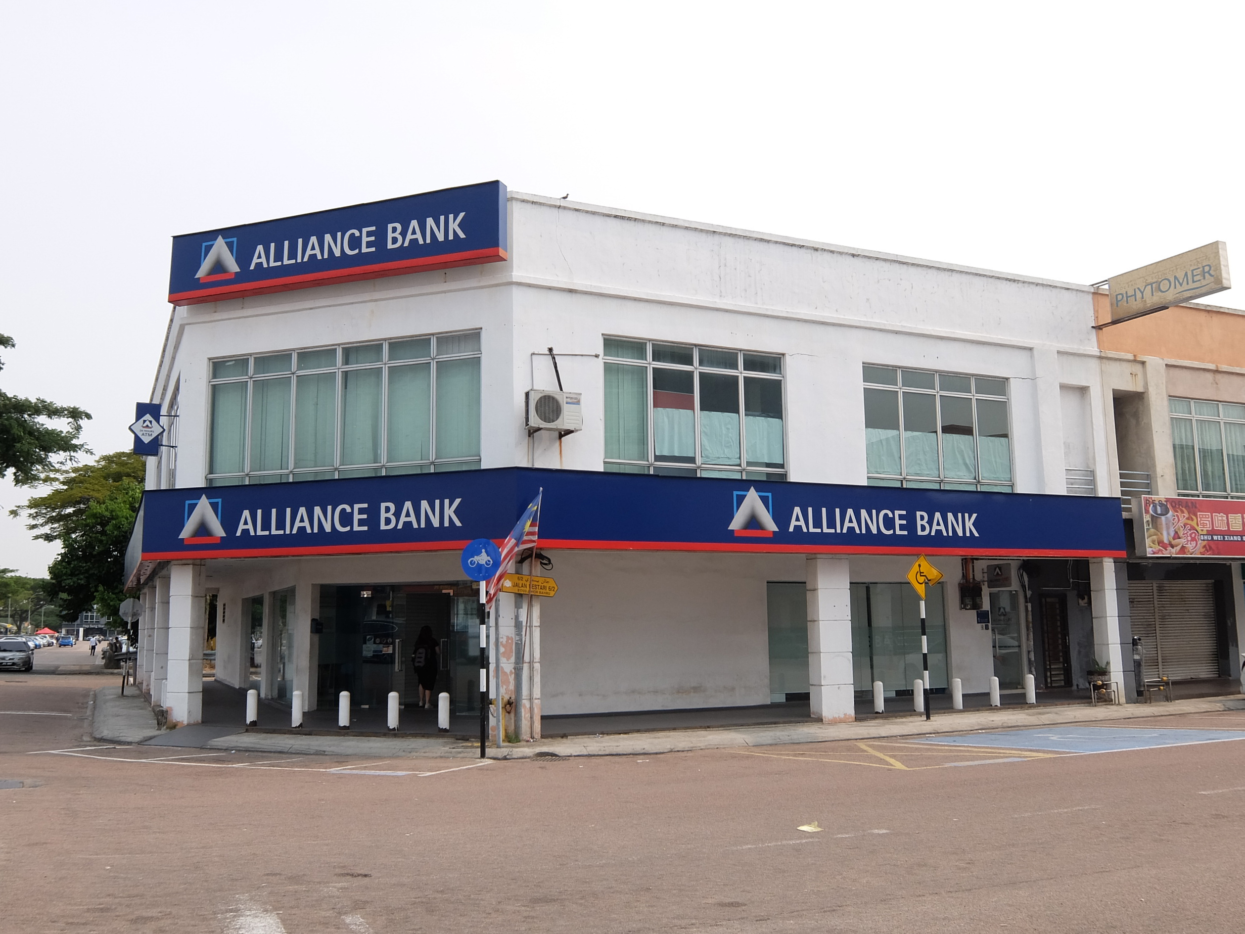 Alliance Bank, Nusa Bestari, Iskandar Puteri, Johor Bahru, Johor, Malaysia